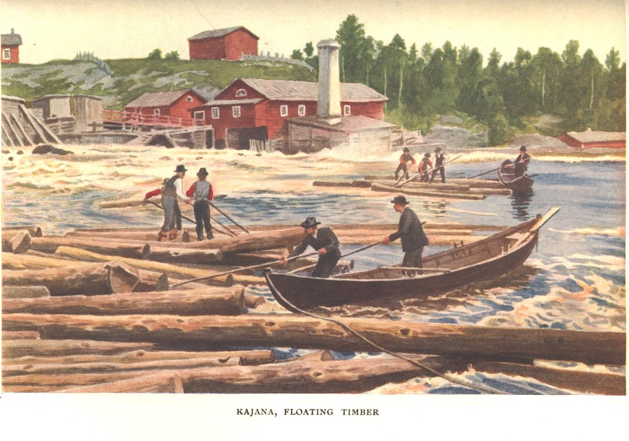 Alexander Federley's picture of floating timber in Ämmäkoski rapids, Kajaani, Finland.